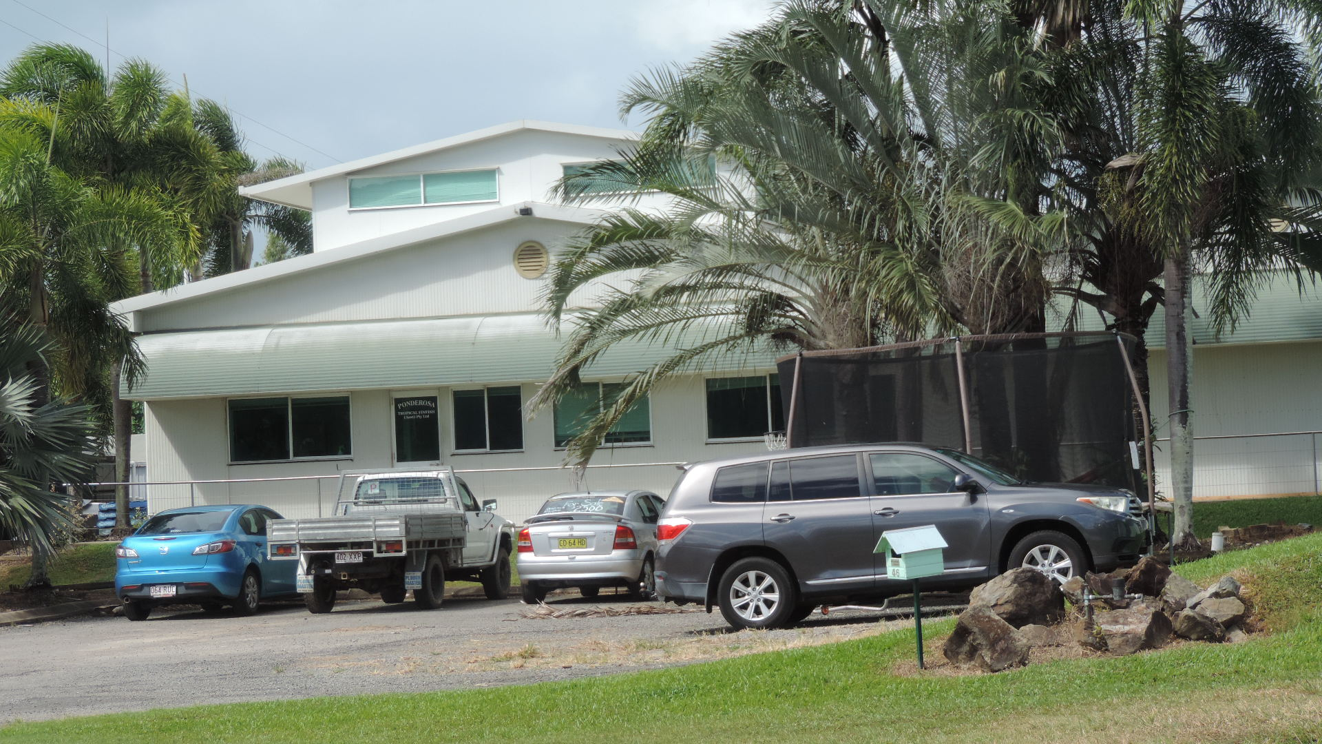 Office of the Ponderosa FinFish farm, Walker Road, Yorkeys Knob, 2018